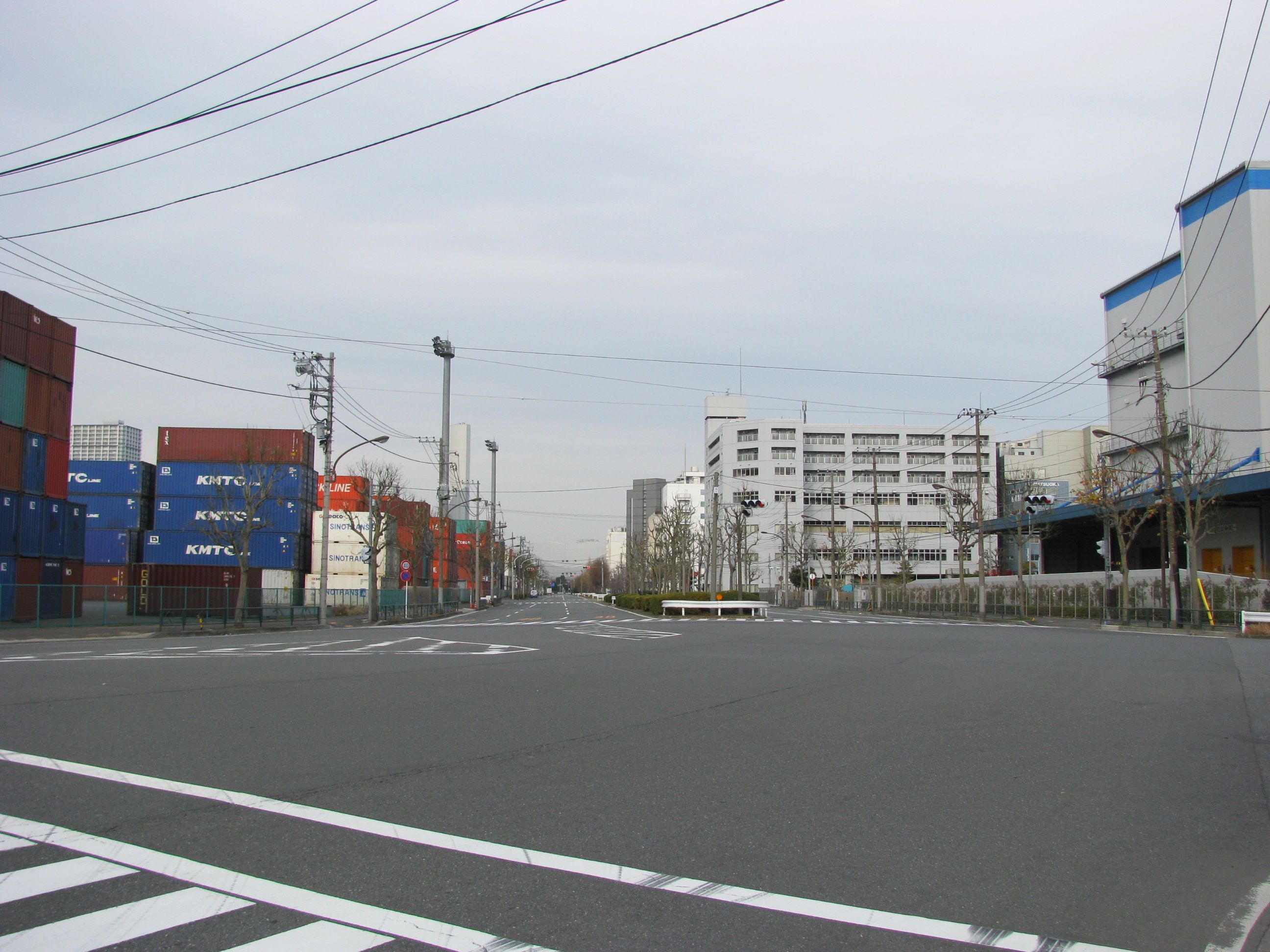 The Tokyo Prefectural Route 480. This location is Higashi-shinagawa in Shinagawa, Tokyo, Japan.